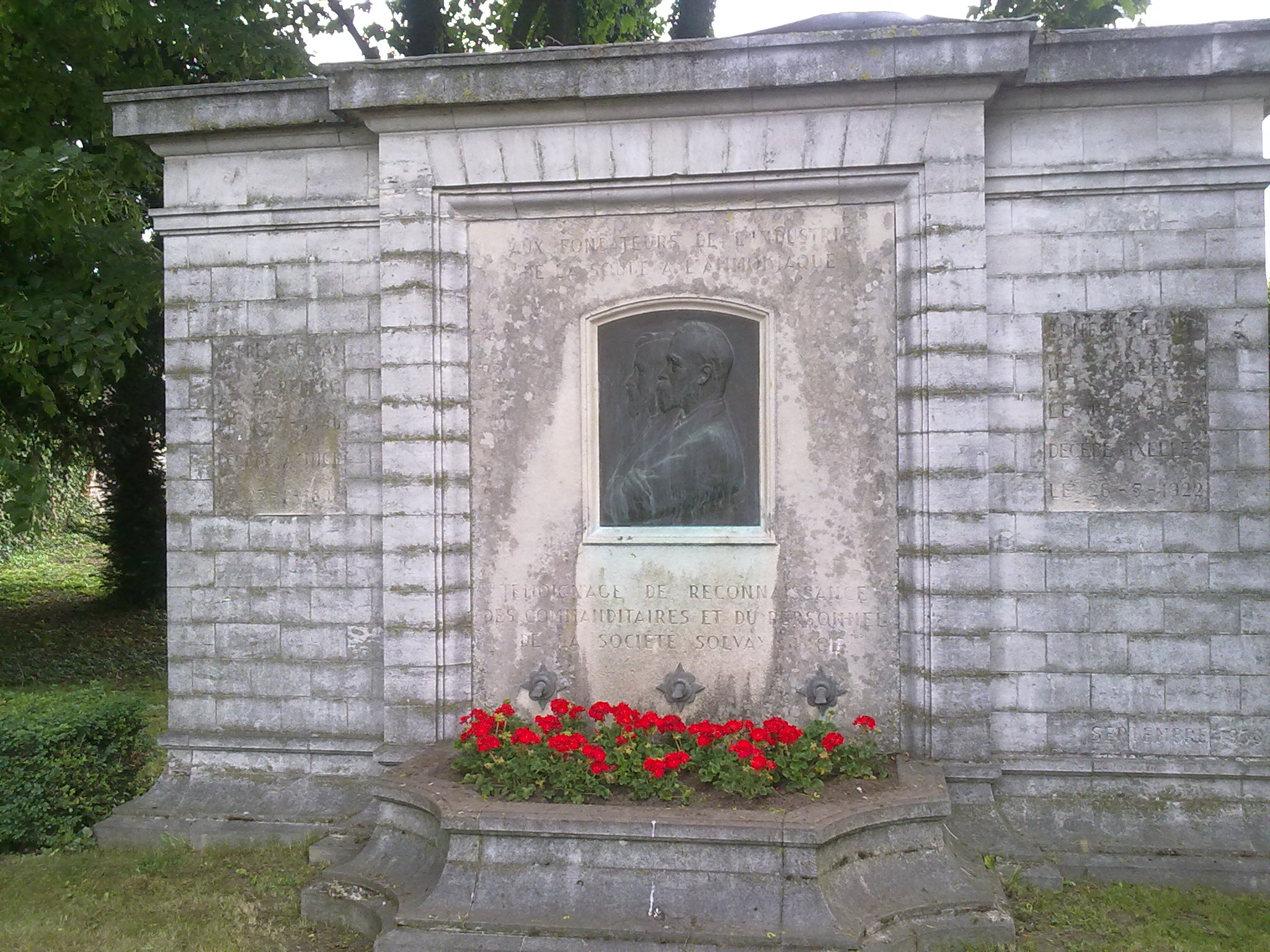 Monument to Ernest and Alfred Solvay in Rebecq (Belgium)